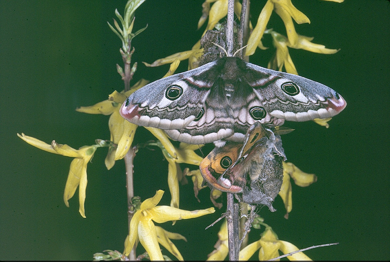 Same day the birth, mating of the butterfly moth SATURNIA PAVONIA (french:Petit paon de nuit) photographed in breeding cage. Picture N°9 / 11.